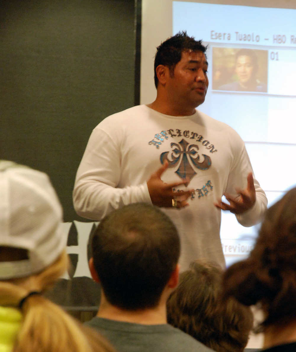 Esera Tuaolo talks to students at Memorial Union on the MU campus on Wednesday, October 7, 2009 about his experience as a gay man playing in the NFL.